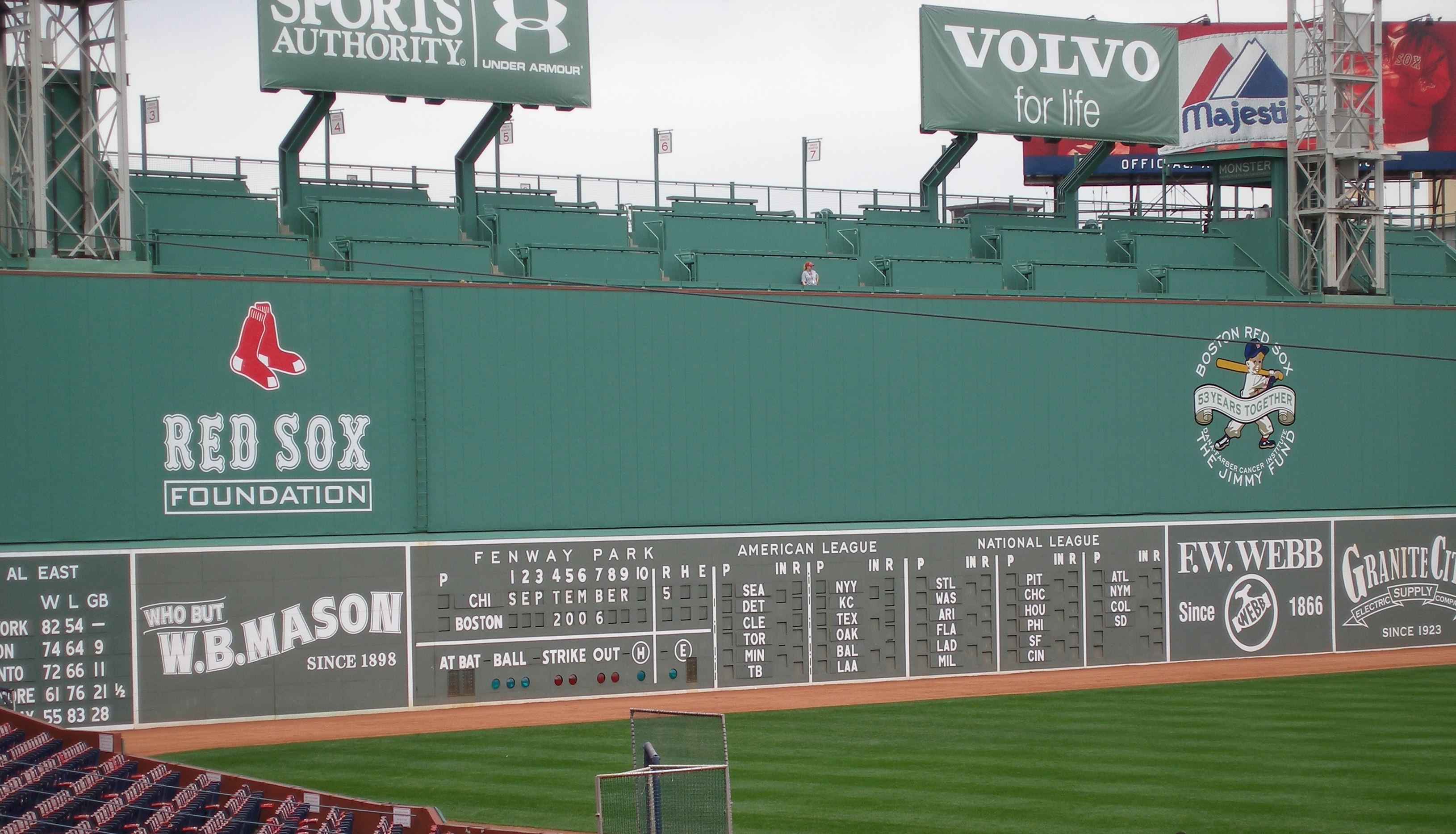 19:43, 6 September 2006 . . Aido2002 . . 3260×1868 (2,522,080 bytes) (Photo taken by Aidan Siegel.)